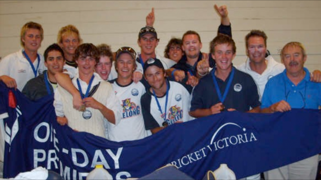 Geelong Cricket Club Premiers 2005/06